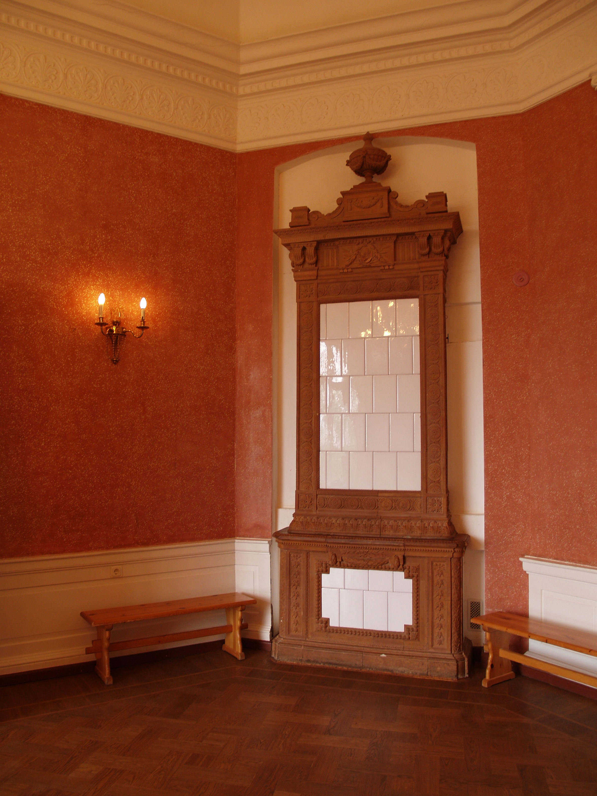 Glazed tile fireplace in Kärstna manor, Estonia.